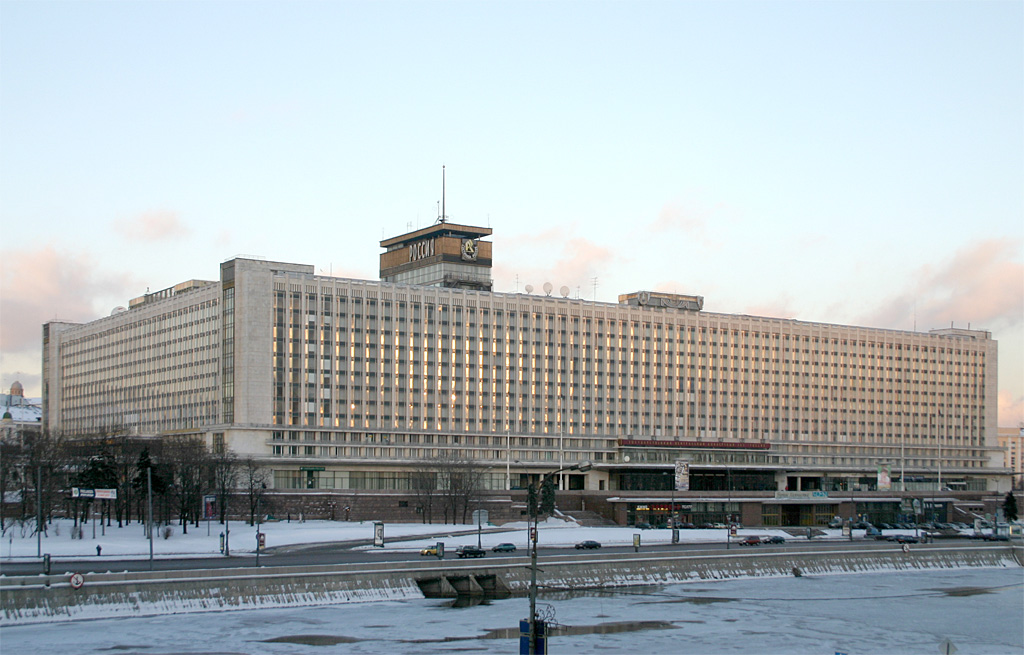 Hotel Russia in Moscow, before the demolition in 2006